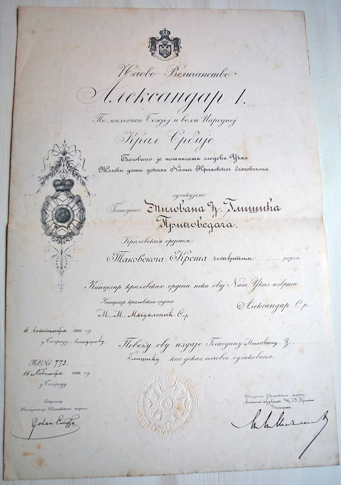 Royal decree; writer and translator Milovan Glišić is to be awarded the Order of the Cross of Takovo. Srpski (latinica): Kraljevo odlikovanje Takovskog krsta piscu i prevodiocu Milovanu Glišiću.